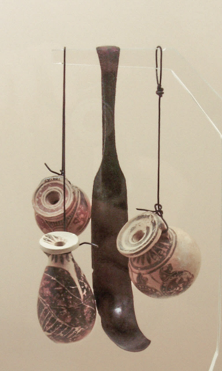 Strigil. Olympia.